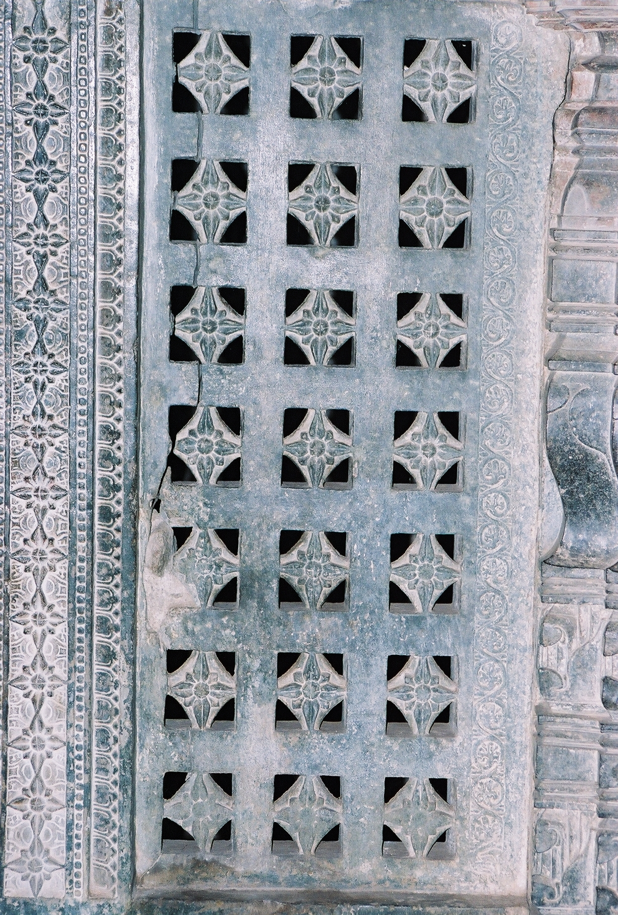 Manikesvara temple in Lakkundi, Gadag district, Karnataka state, India